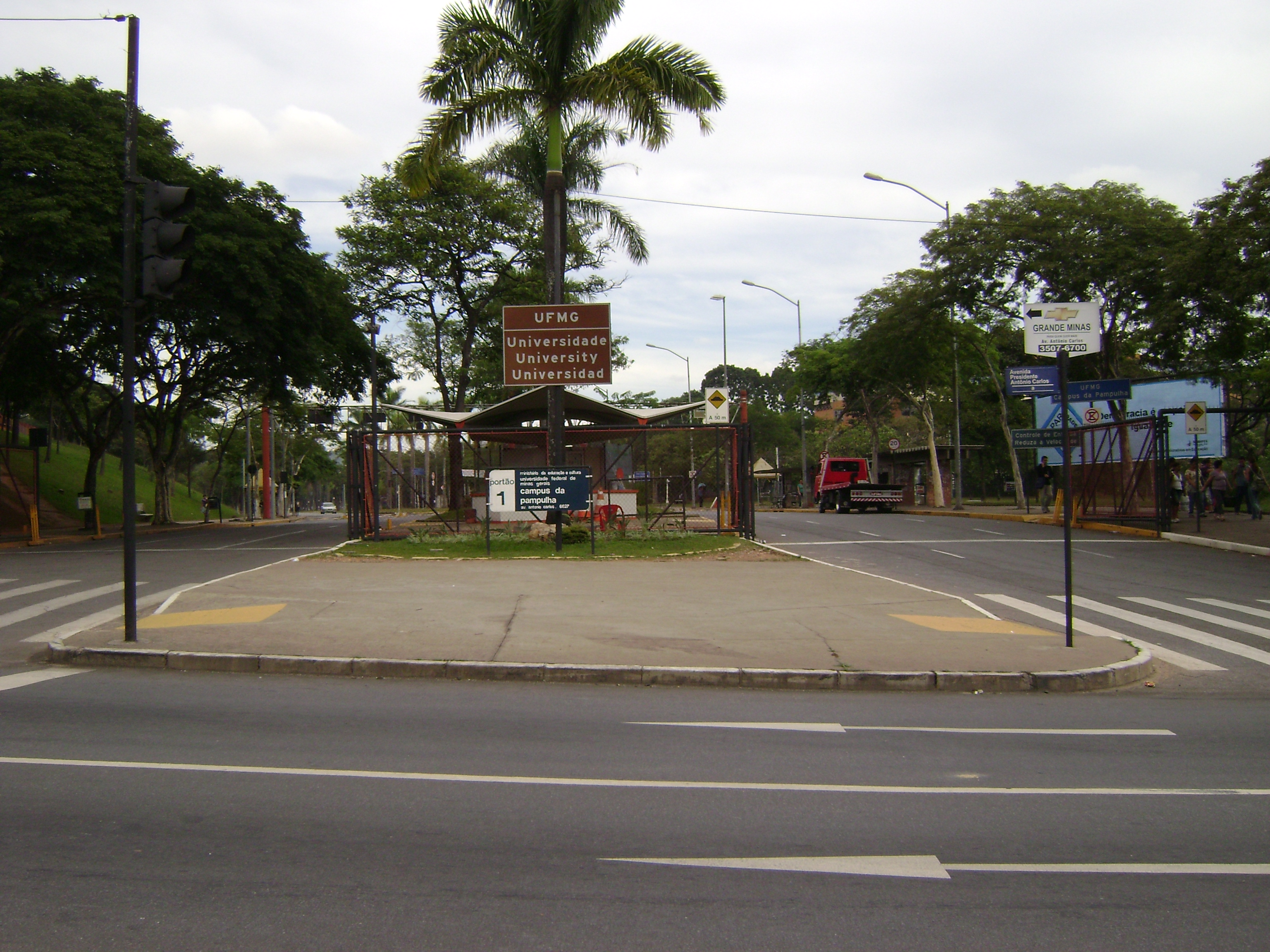 Entrance of campus Pampulha of Universidade Federal de Minas Gerais (Federal University of Minas Gerais), in Belo Horizonte, Brazil.